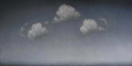 Painting (oil on canvas), "Tre moln" ("Three clouds"), 100x200 cm.